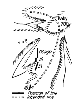 Map depicting unit positions and movements during fighting around Baby 700 at Gallipoli, May 1915